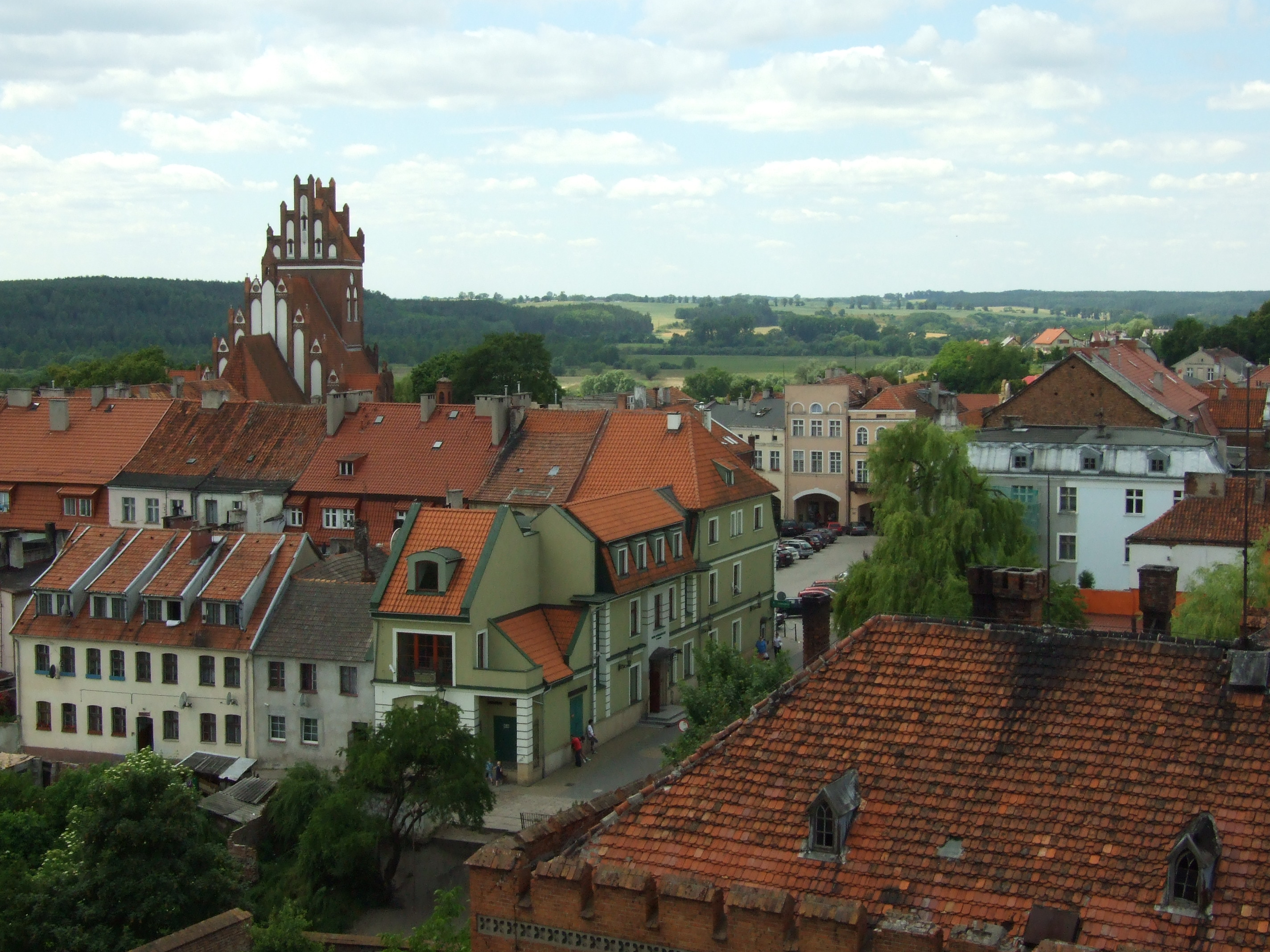 Town of Gniew seen from local castle, Poland